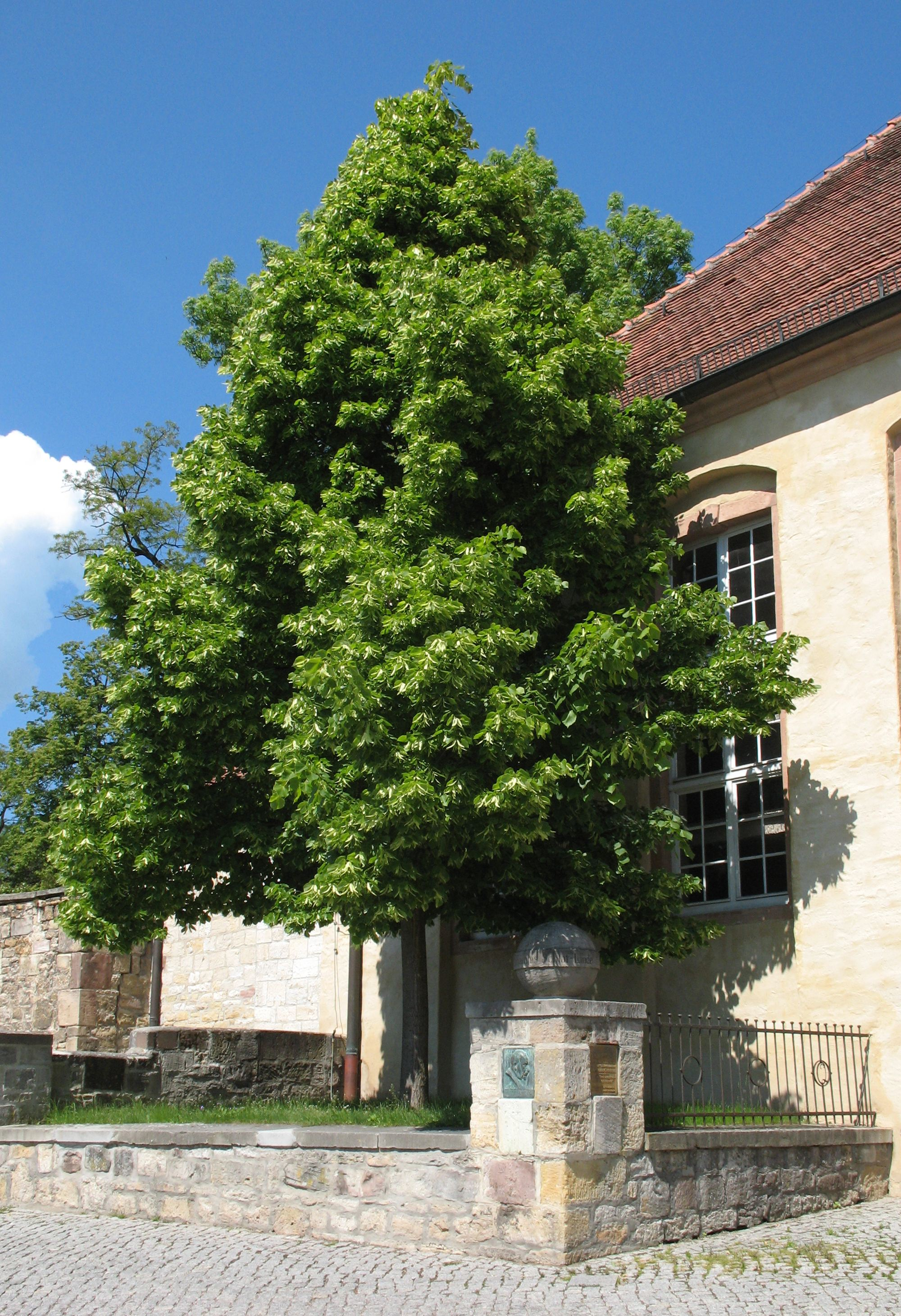 Linden tree in Querfurt in Saxony-Anhalt, Germany